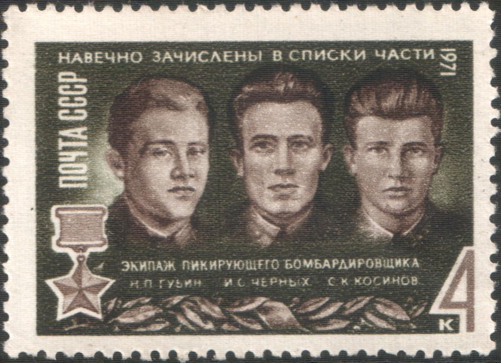 USSR stampsː World War II Heroes Nazar Gubin, Ivan Chernykh and Simon Kosinov (Dive-Bomber Crew). Seriesː Heroes of World War II